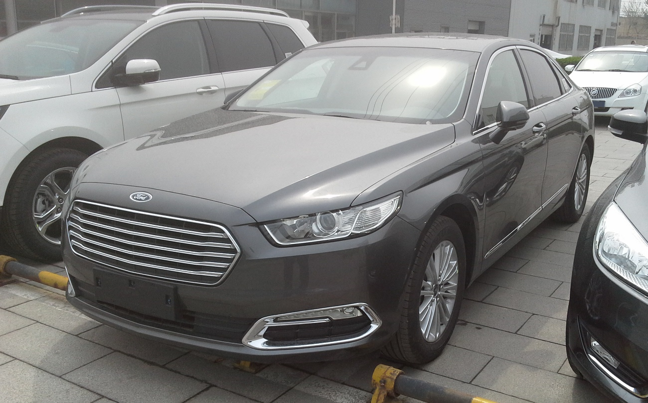 Ford Taurus CN photographed in Beijing, China.